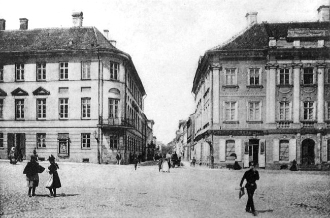 Tartu (then - Yuriev) University building and the adjacent Ritterstrasse (Knight Street). Russian postcard.